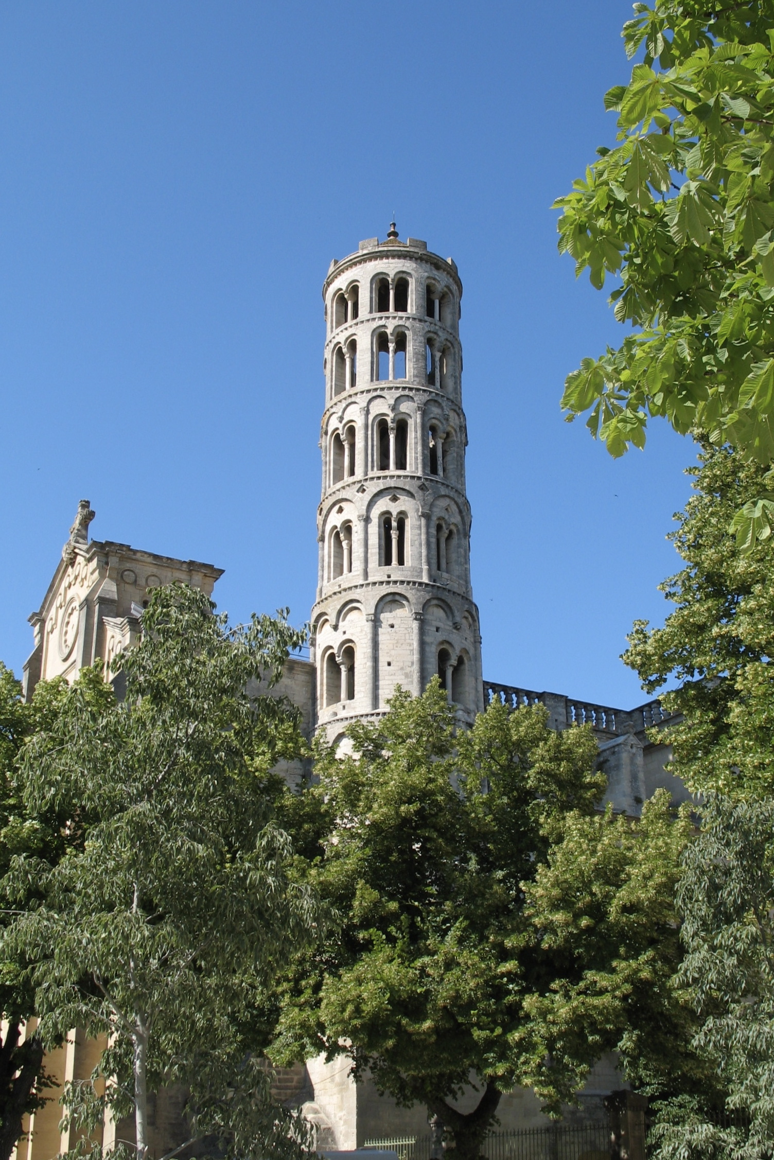 The Fenestrelle Tower at Uzès (Département du Gard, France)